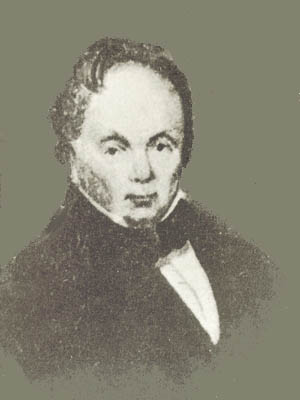 Portrait of Jacques Dupré, senator of Louisiana and governor of the state of Lousiaiana